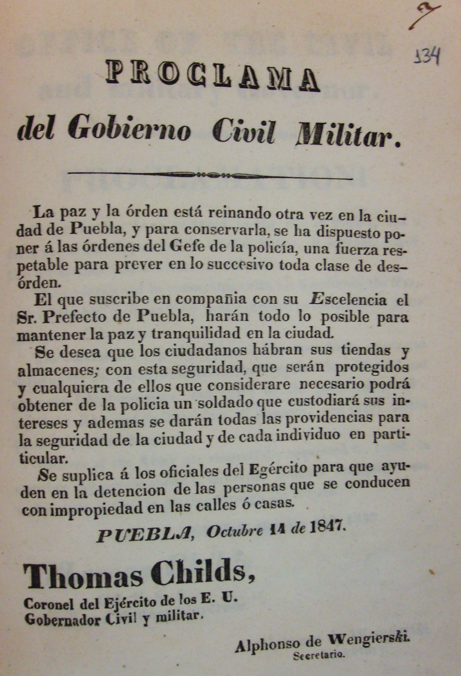 Colonel Thomas Child´s proclamation, military governor of Puebla, during the occupation of this city in the Mexican-American War.